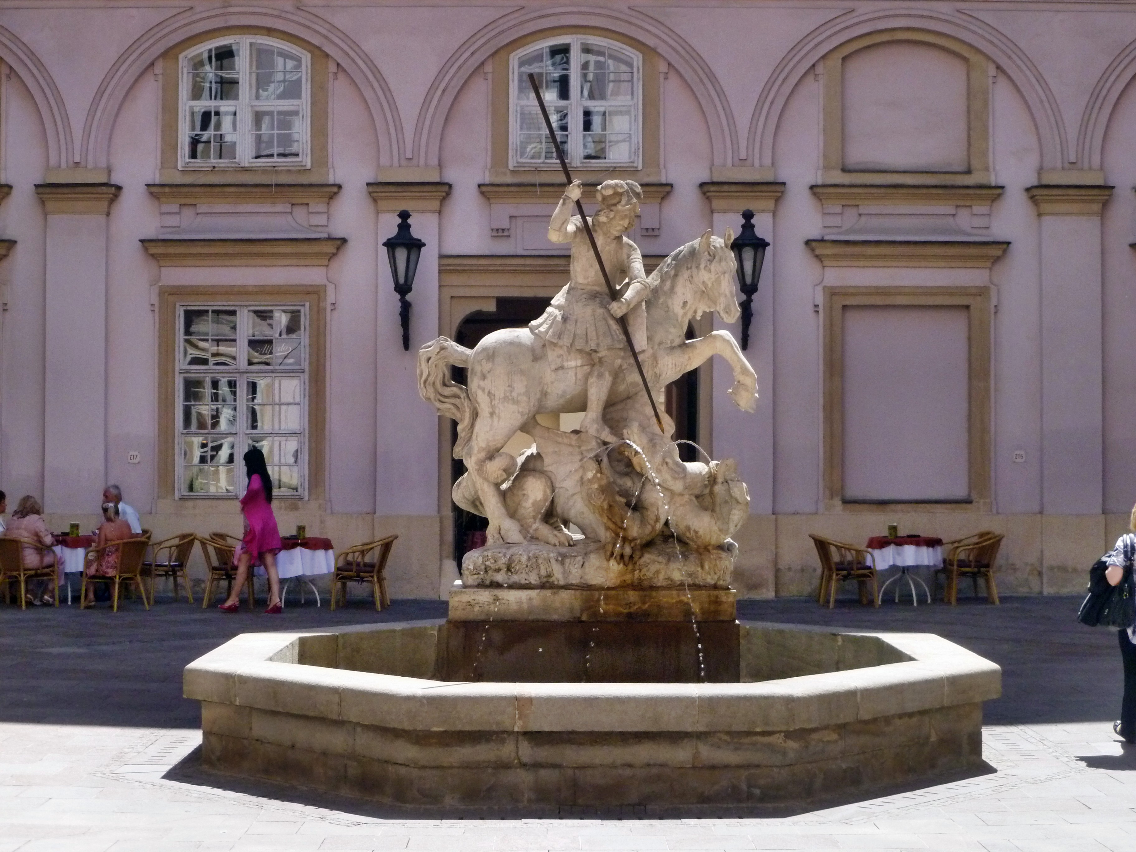 St. George killing the dragon, fountain at the inner court of the Primate's Palace, Bratislava